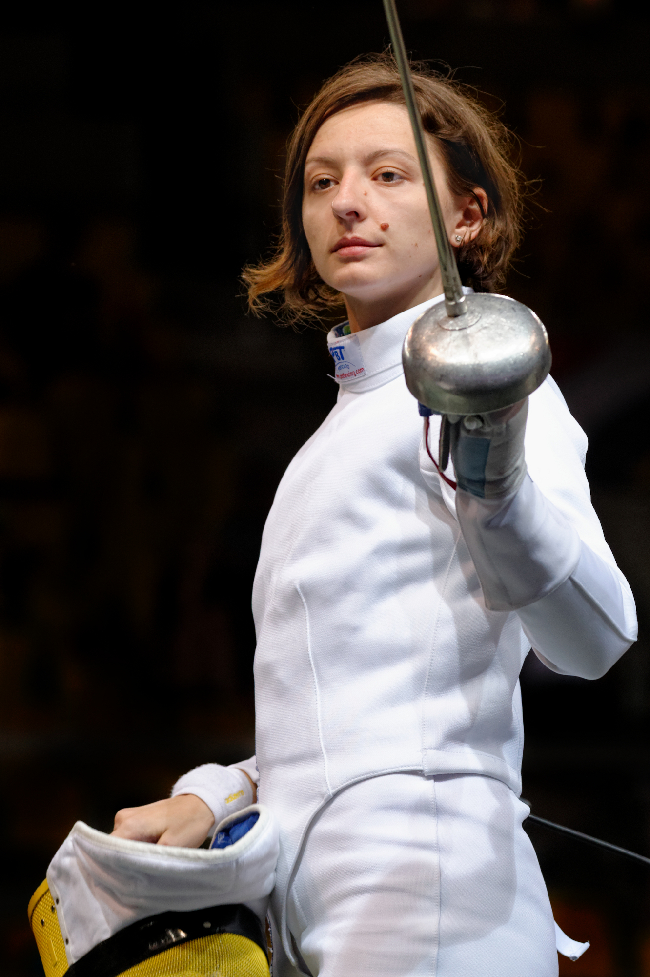 Romania's Ana Maria Brânză at the women's épée event of the European Fencing Championships at Rhénus Sport in Strasbourg on 8 June 2014.